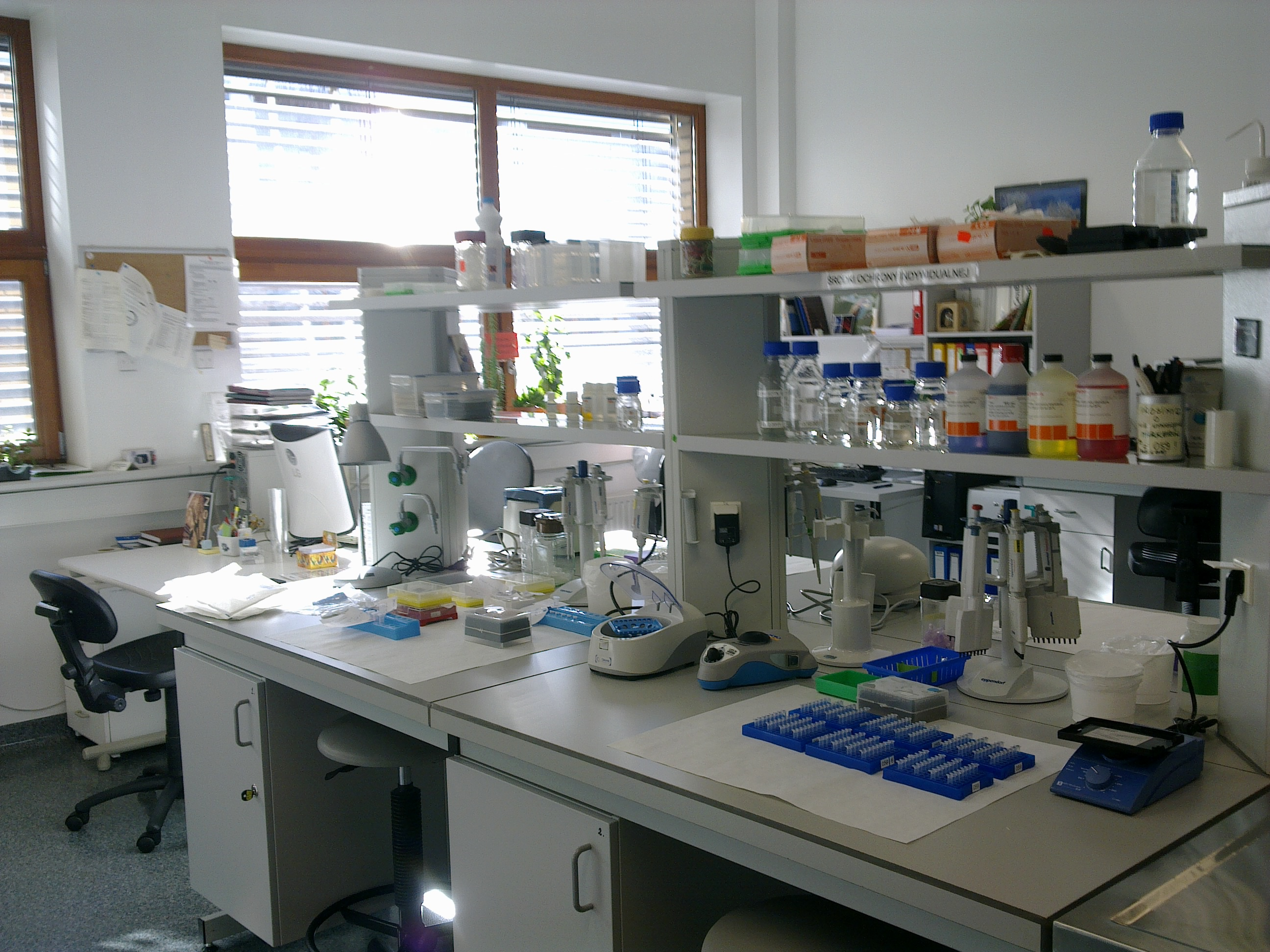 Molecular Biology Techniques Laboratory at Faculty of Biology of Adam Mickiewicz University in Poznan